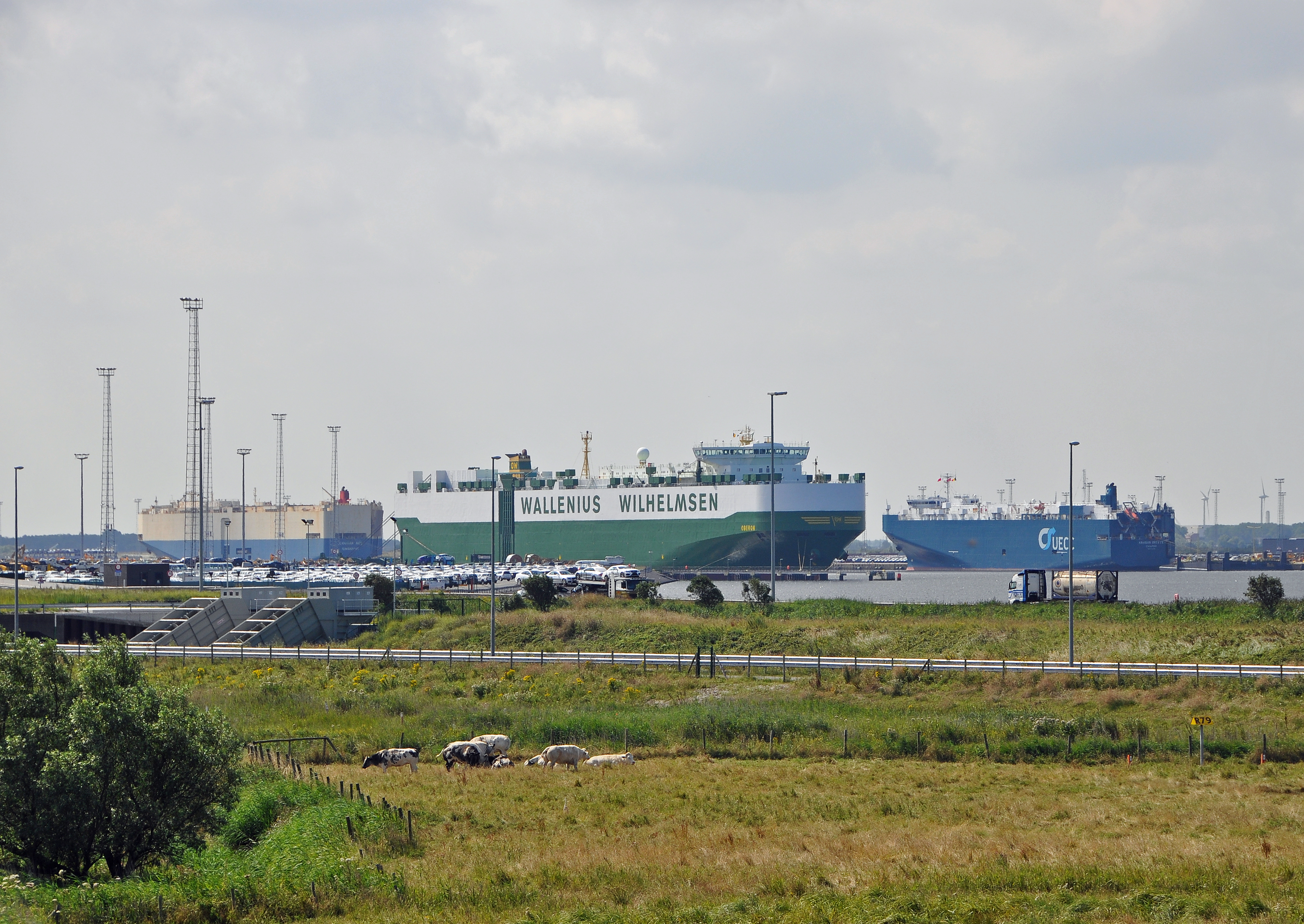 Car carriers in the port of Zeebrugge (Belgium). From left to right: Cougar Ace (IMO 9051375), Oberon (IMO 9377509) and Arabian Breeze (IMO 8202355).